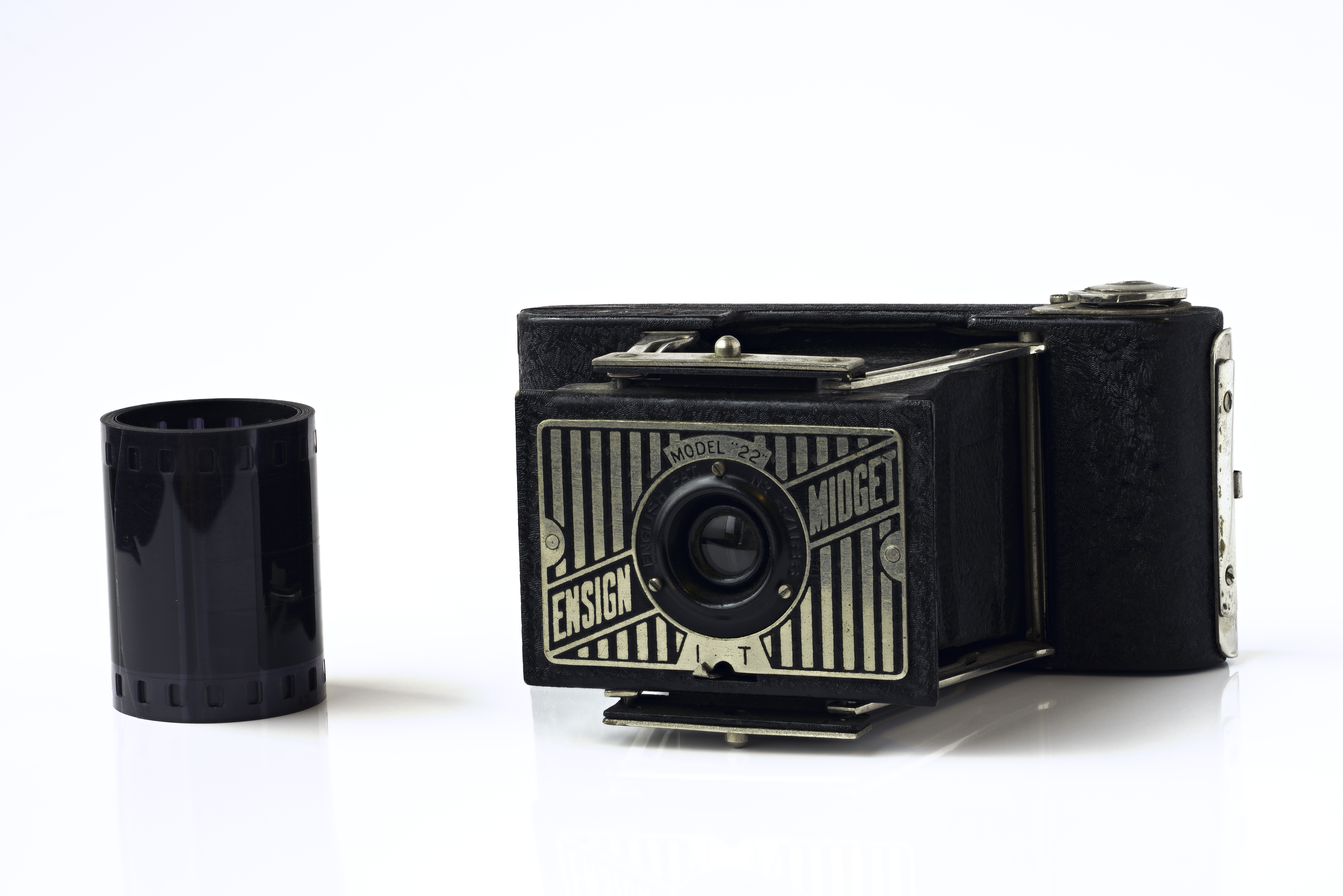 Ensign Midget model 22 miniature camera, manufactured by Ensign Ltd. between 1934-40, in comparison to a type 135 film roll (perforated). The original paper-backed film roll had the same width, but was unperformated.